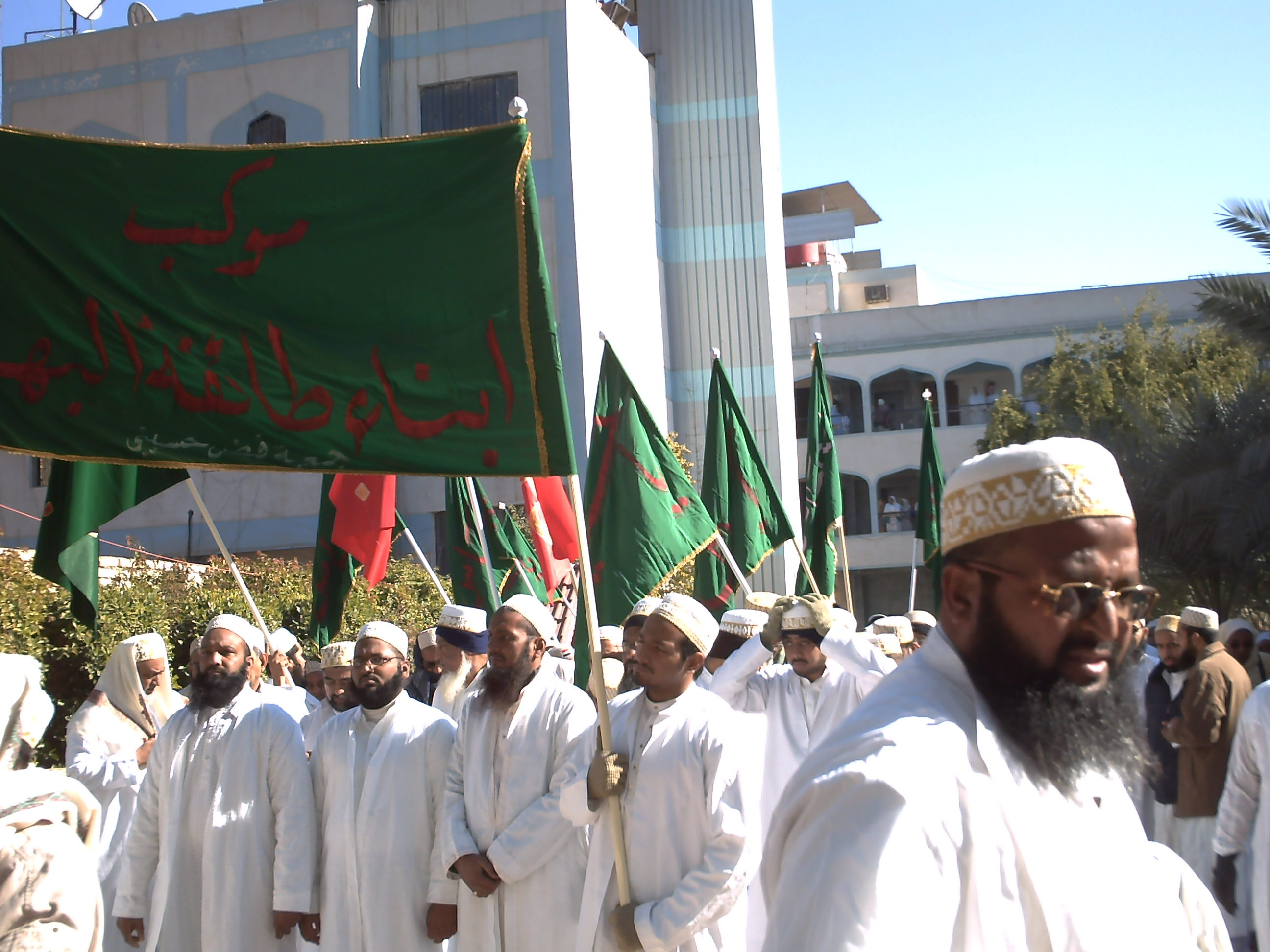 Dawoodi Bohra in dress code